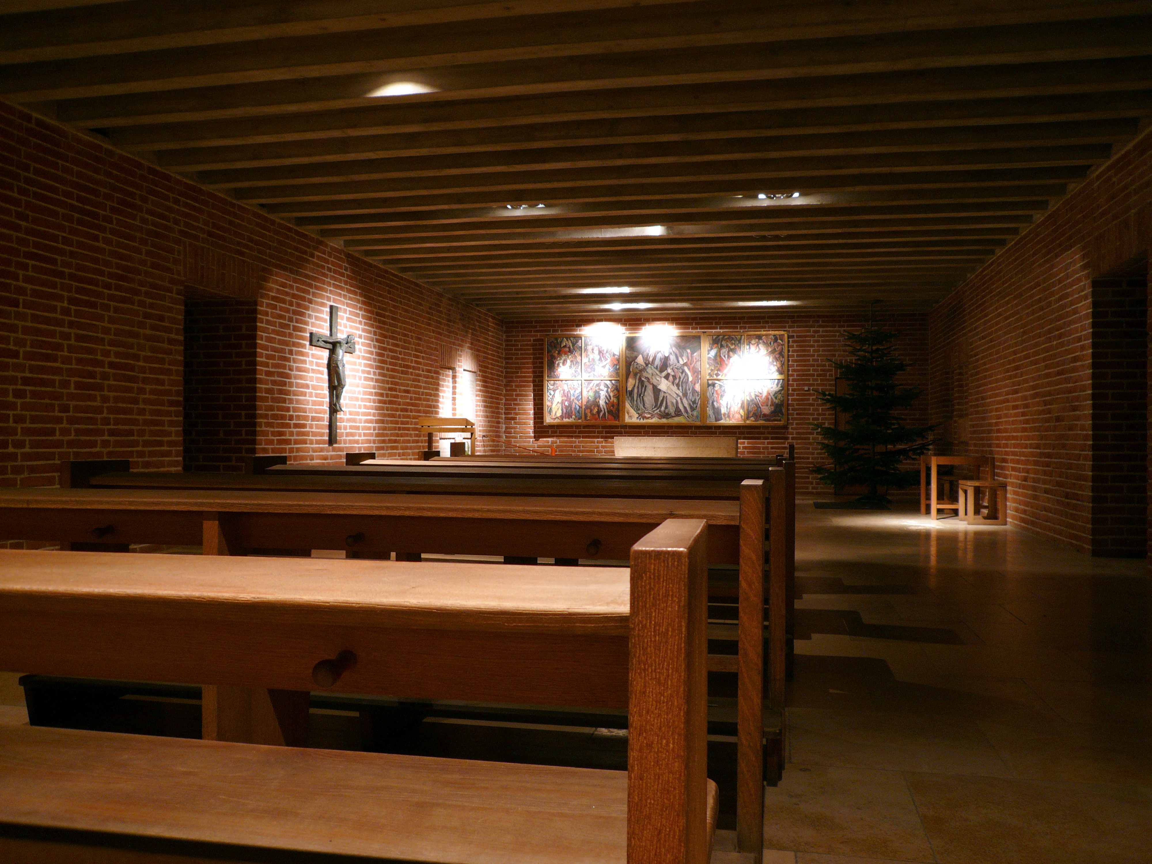 Crypt of Frauenkirche in Munich